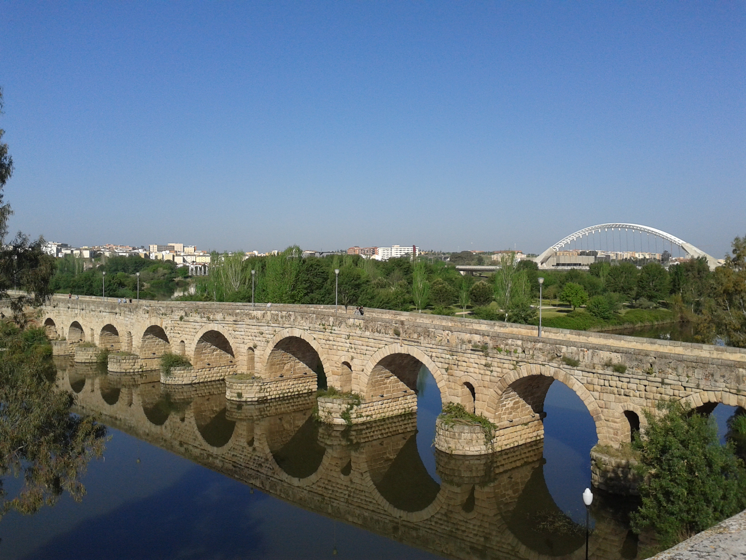 Roman bridge in Mérida with modern Lusitania Bridge in background